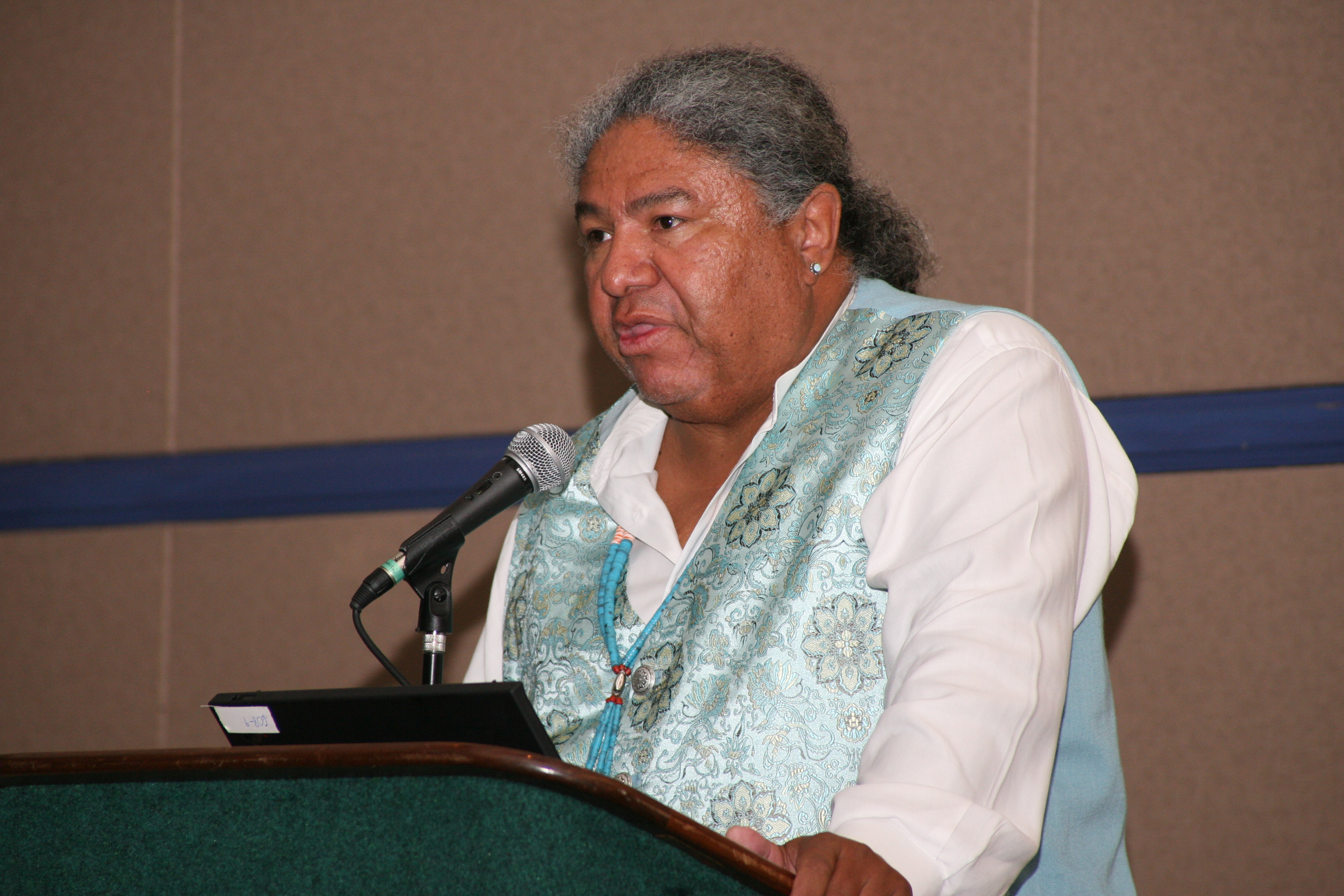 Edgar Heap of Birds The art of Hock E Aye VI Edgar Heap of Birds includes public art messages, drawings, paintings, prints, works in glass, and sculpture. The work of Heap of Birds was chosen by the Smithsonian’s National Museum of the American Indian for the U.S. Pavilion at the 52nd Venice Biennale. He received his M.F.A. from Tyler School of Art, his B.A. from the University of Kansas, and was awarded an Honorary Doctor of Fine Arts from the Massachusetts College of Art and Design. Heap of Birds teaches Native American Studies at the University of Oklahoma and has received grants and awards from the National Endowment for the Arts, the Rockefeller Foundation, the Lila Wallace Foundation, the Pew Charitable Trust, and the Andy Warhol Foundation.